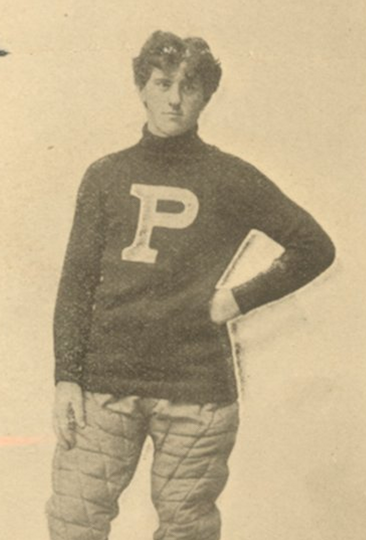 Otto Wagonhurst, Member, 1893 football team, in football attire